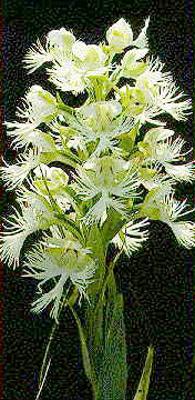 Western Prairie Fringed Orchid (Platanthera praeclara) Downloaded from : Credits : US Geological Survey - Northern Prairie Wildlife Research Center Photo : Tom Spikermeier